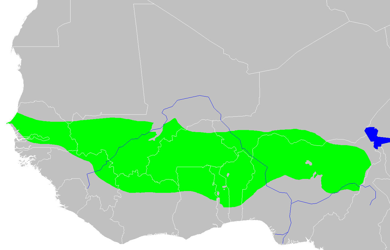 West Sudanian Savanna ecoregion map — of the Tropical and subtropical grasslands, savannas, and shrublands biome, in central West Africa.